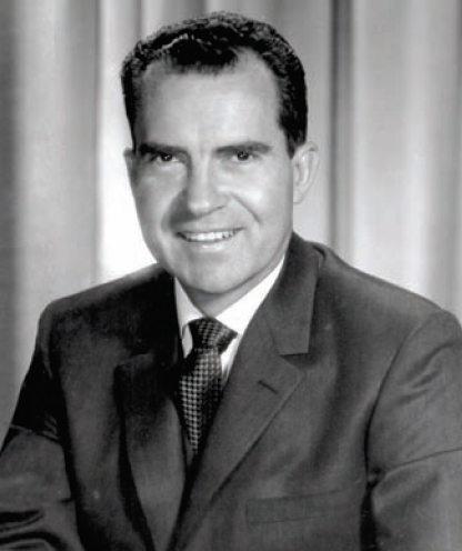 Official Vice Presidential portrait of Richard Nixon